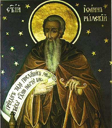 Medieval Icon of Ioann Rylsky (John of Rila)